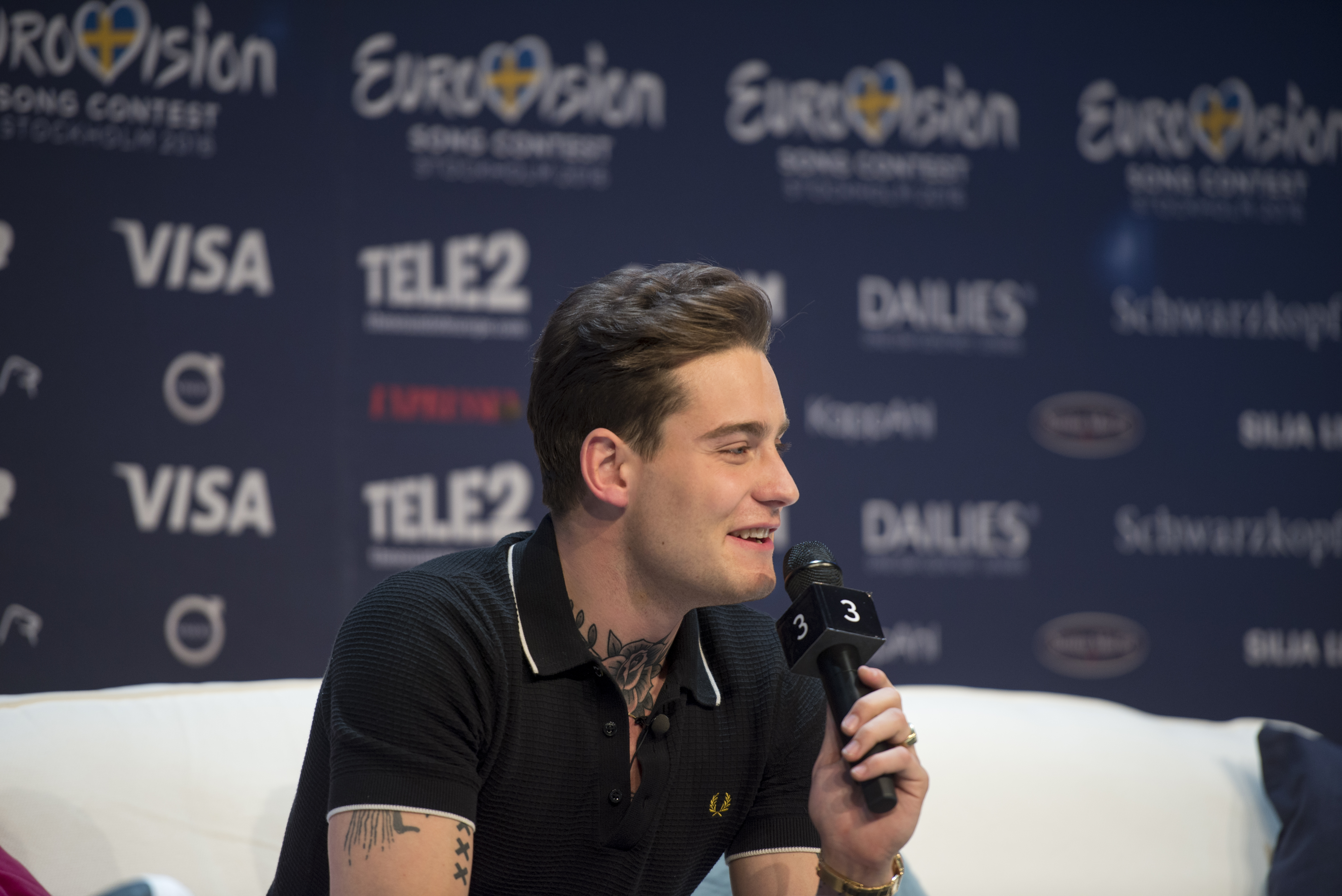 Douwe Bob at a Meet & Greet during the Eurovision Song Contest 2016 in Stockholm. (Help translate this text)